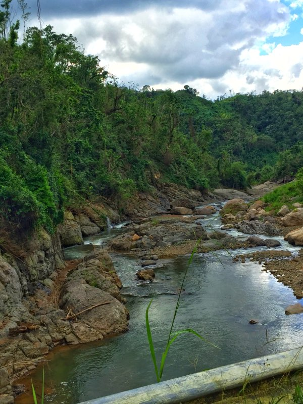 Per Western Area Power, mountainous, rural areas in Adjuntas, Puerto Rico compound restoration after Hurricane Maria